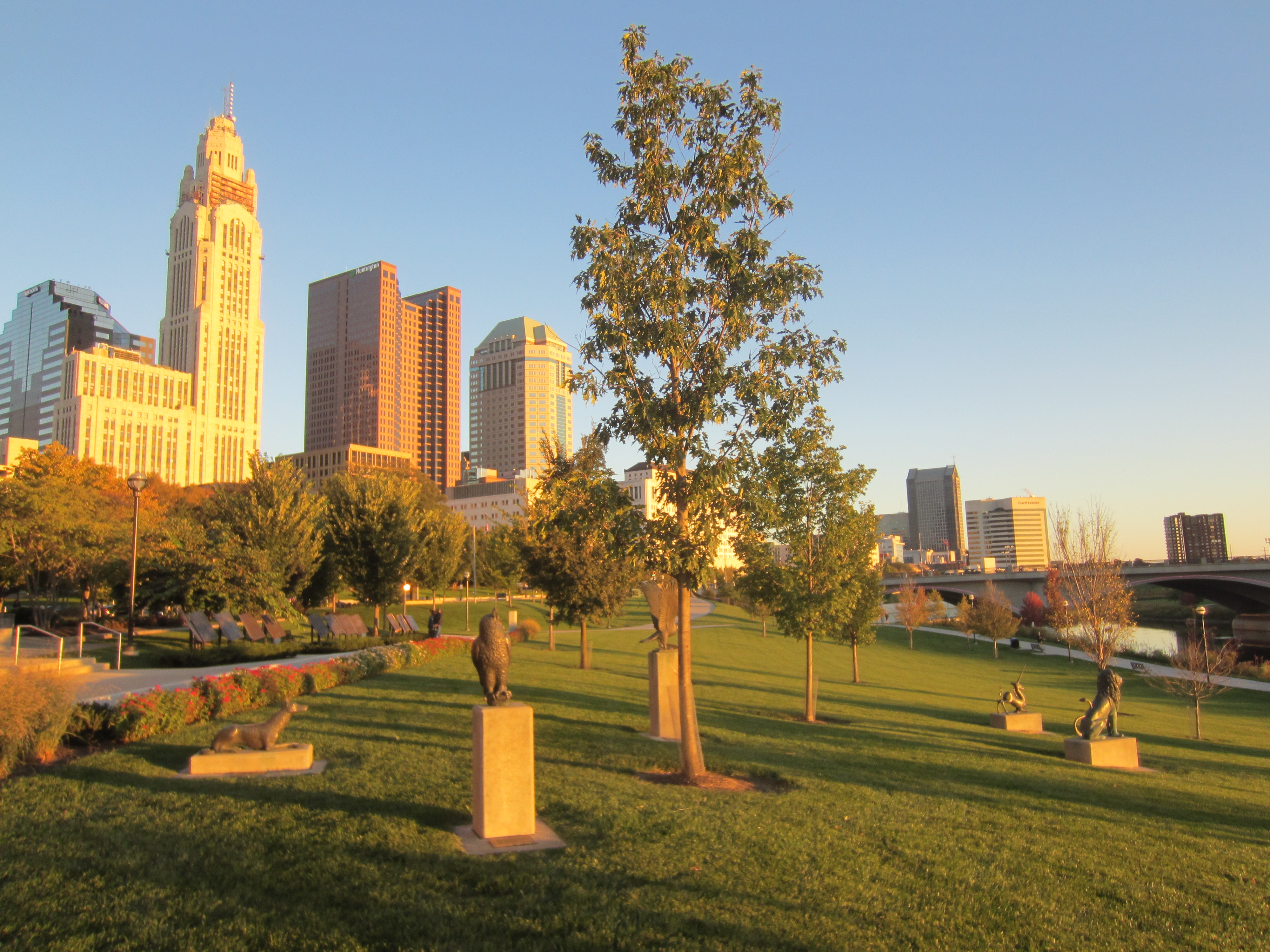 Columbus, Ohio (2018)